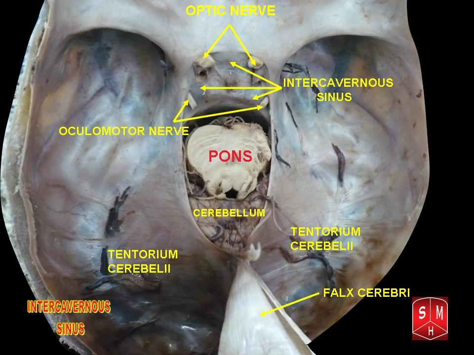 Anatomical preparation